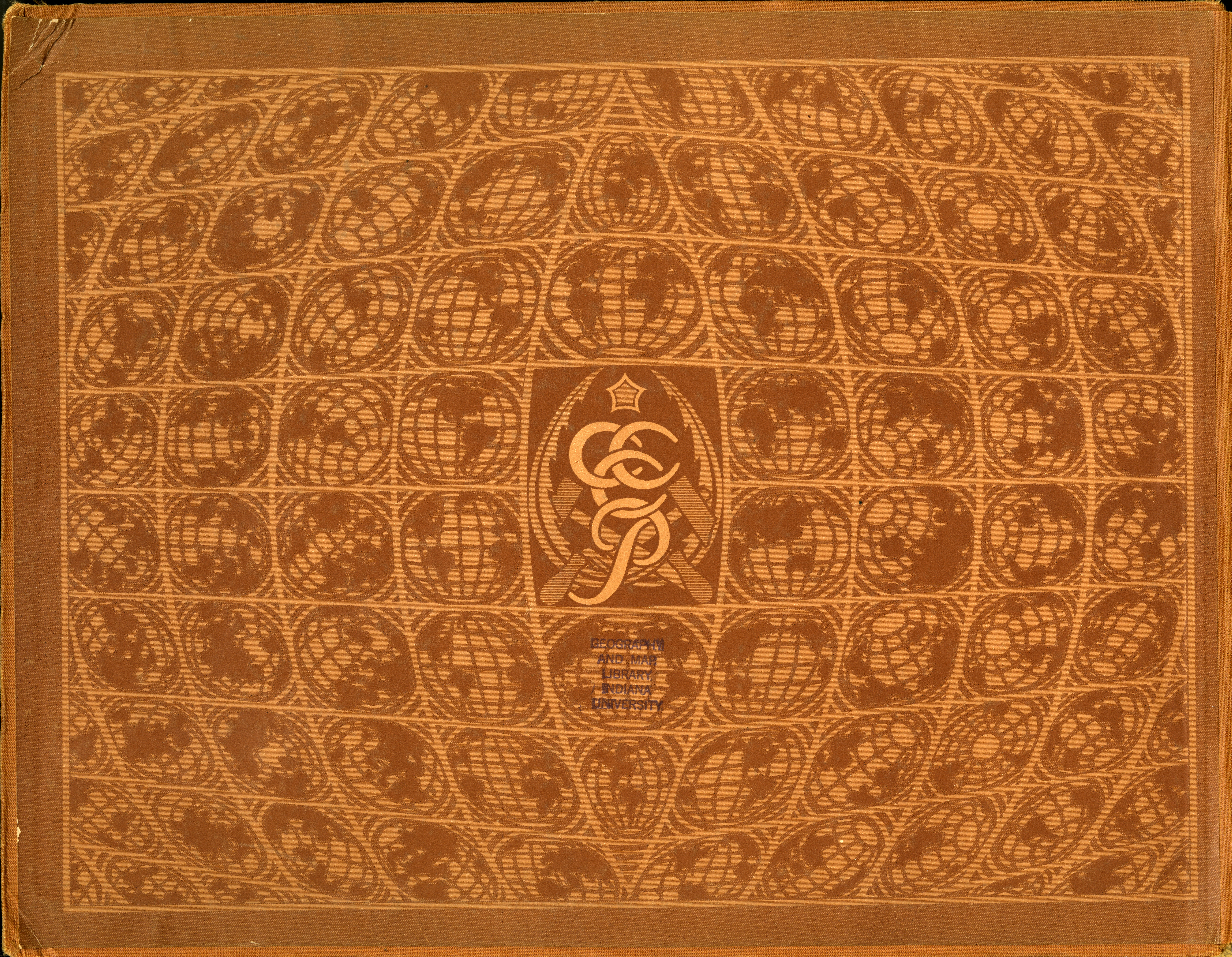 Reverse (inside) of the front cover of the Atlas of the USSR published in 1928